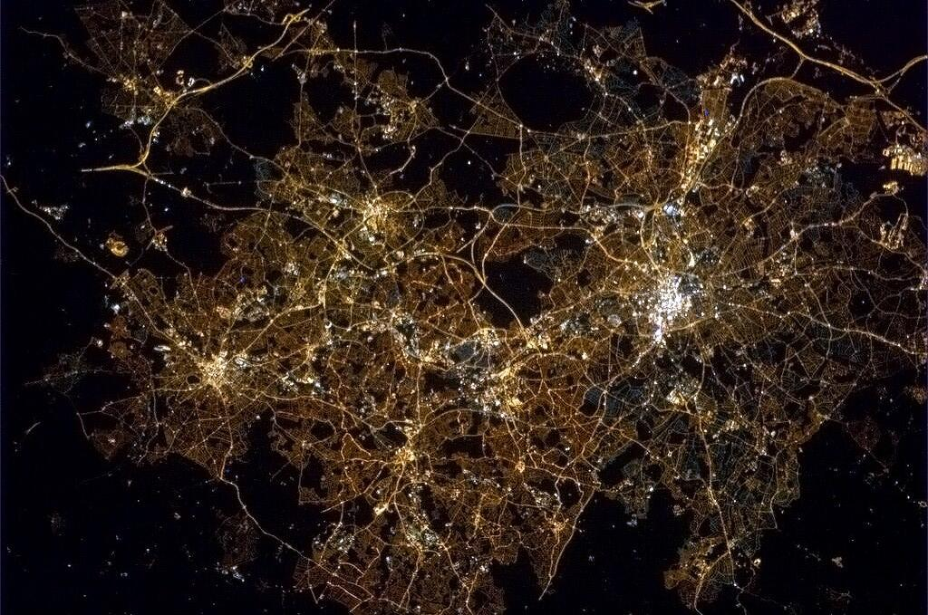 Birmingham at night photographed from the ISS